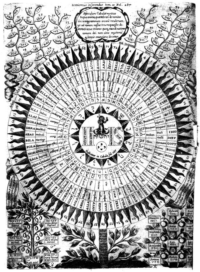 Diagram of the names of God in Oedipus Aegyptiacus